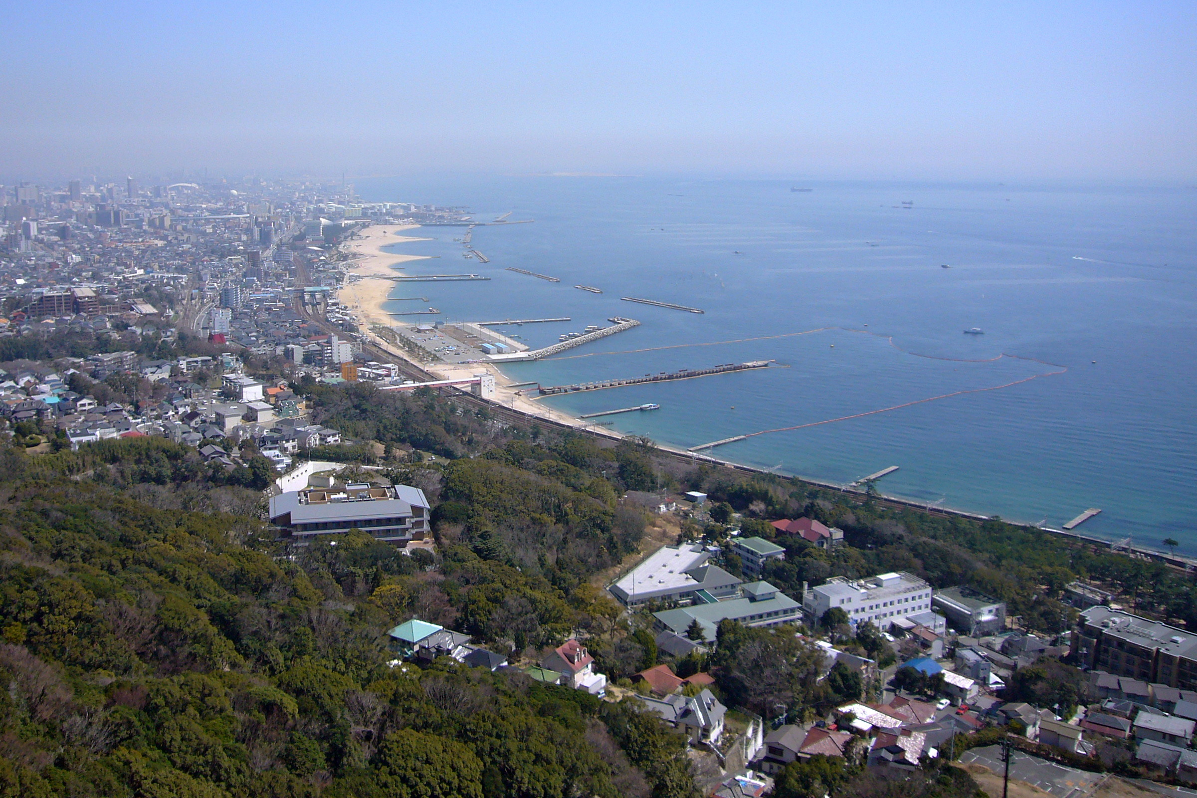 Sumaura Ropeway in Kobe, Hyogo prefecture, Japan